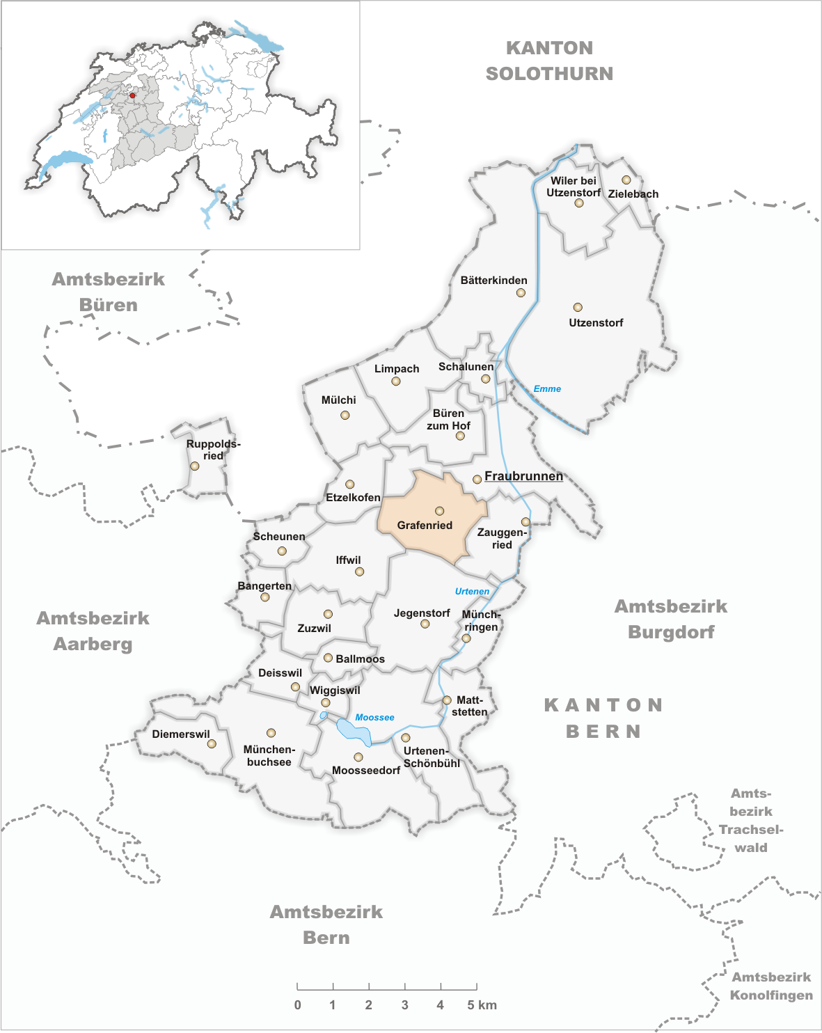 Municipality Grafenried